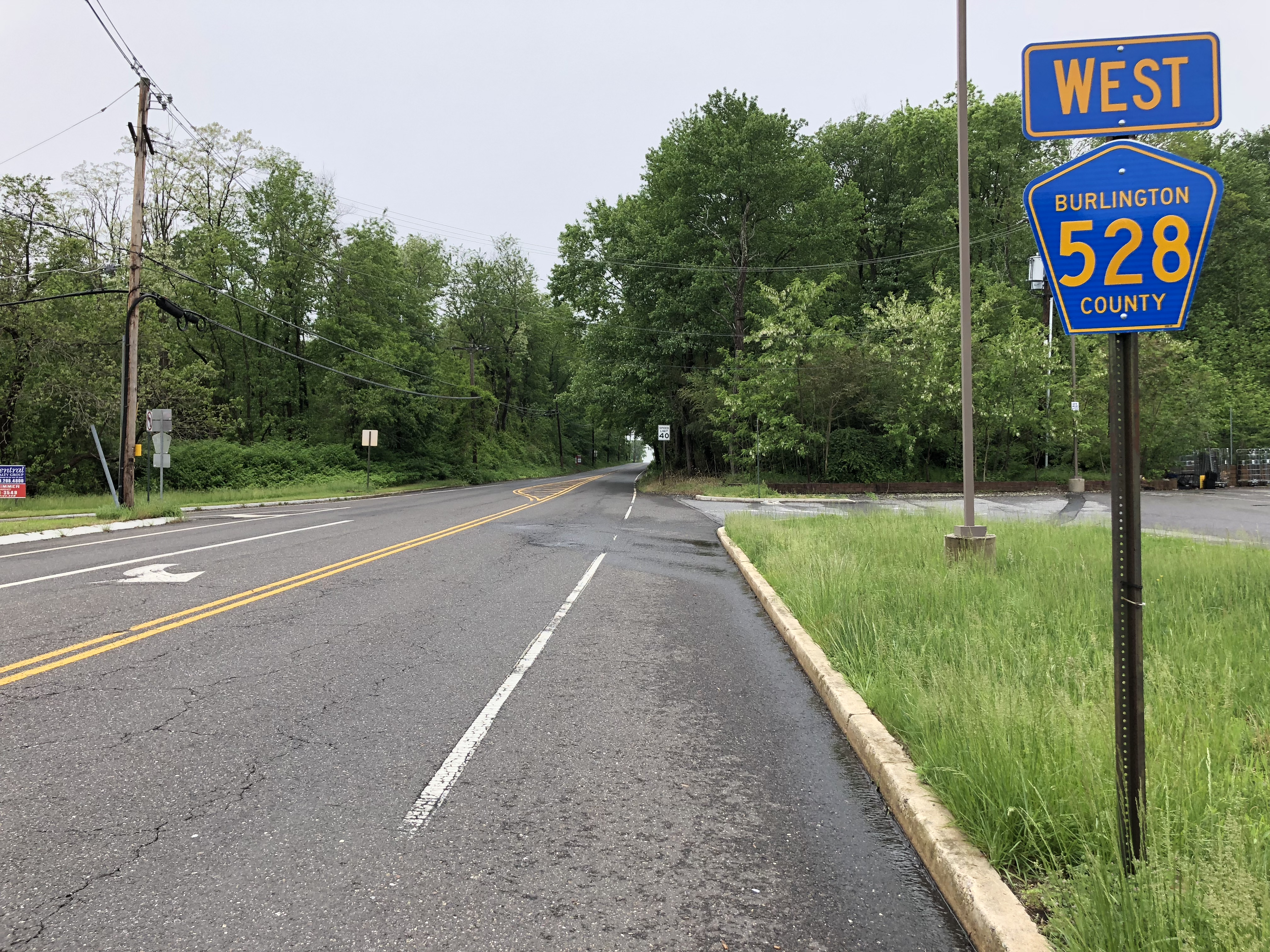 View west along Burlington County Route 528 (Jacobstown-New Egypt Road) at Burlington County Route 537 (Monmouth Road) in North Hanover Township, Burlington County, New Jersey